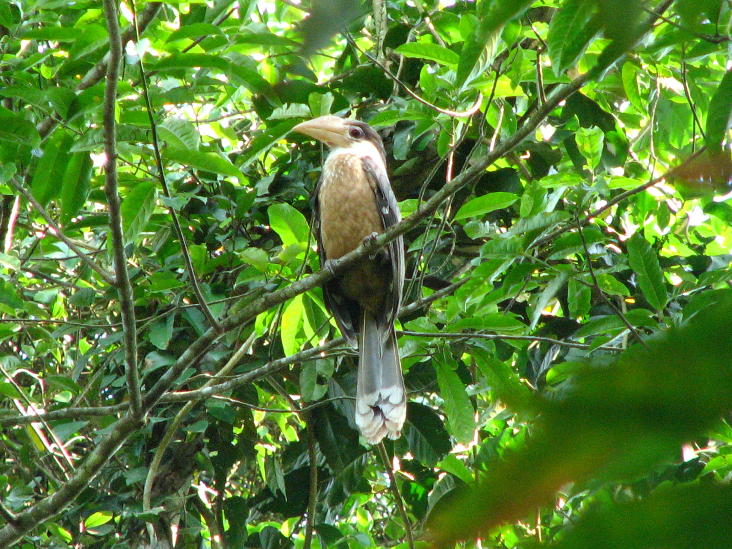 Near-threatened hornbill species